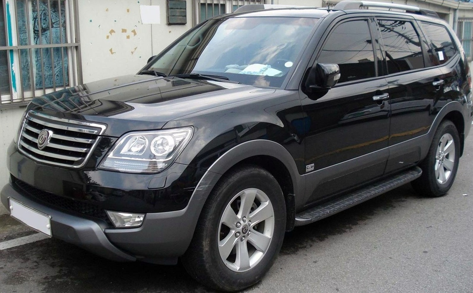 Kia Mohave